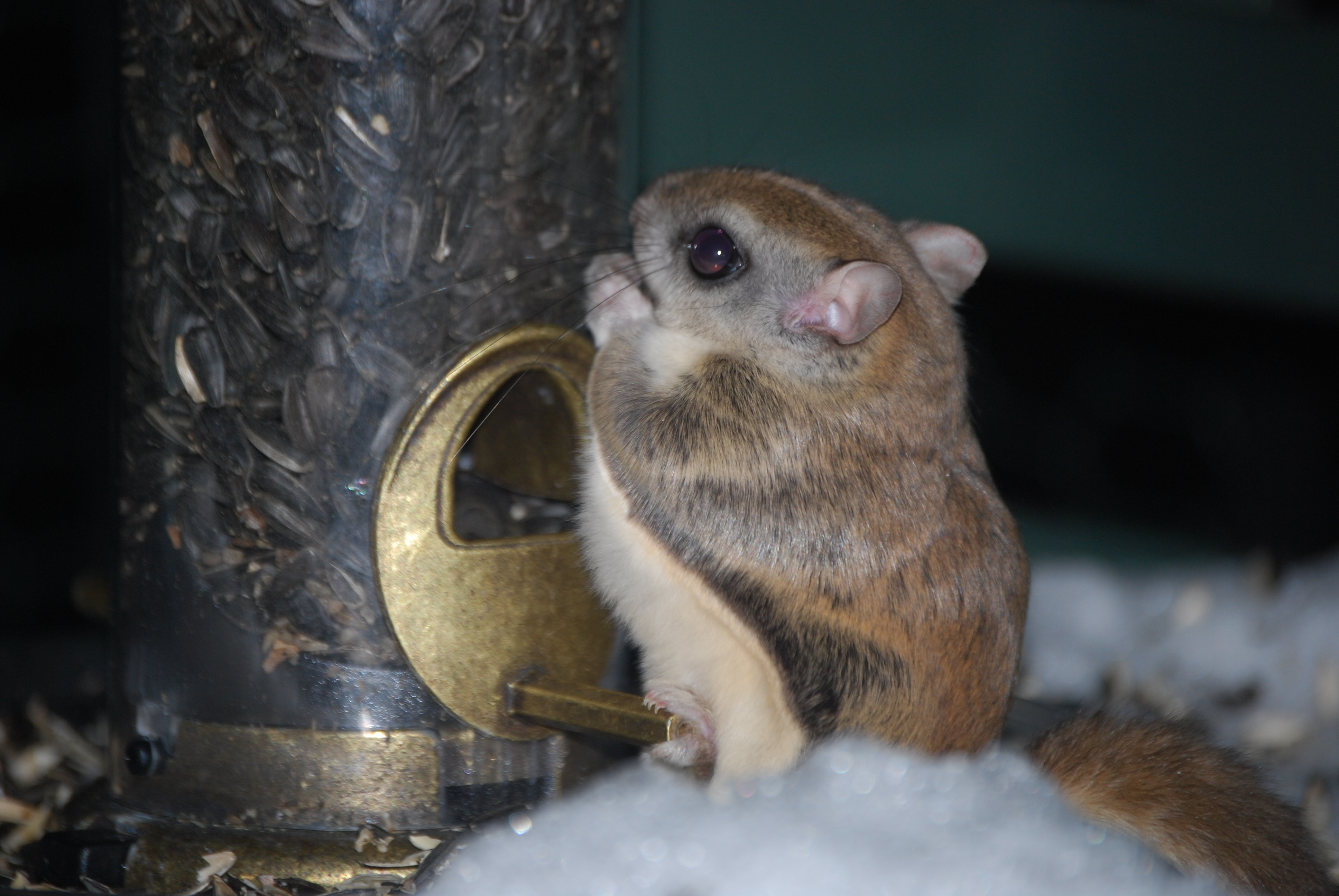 Southern Flying Squirrel (Glaucomys volans) snacks on sunflower seeds at birdfeeder.